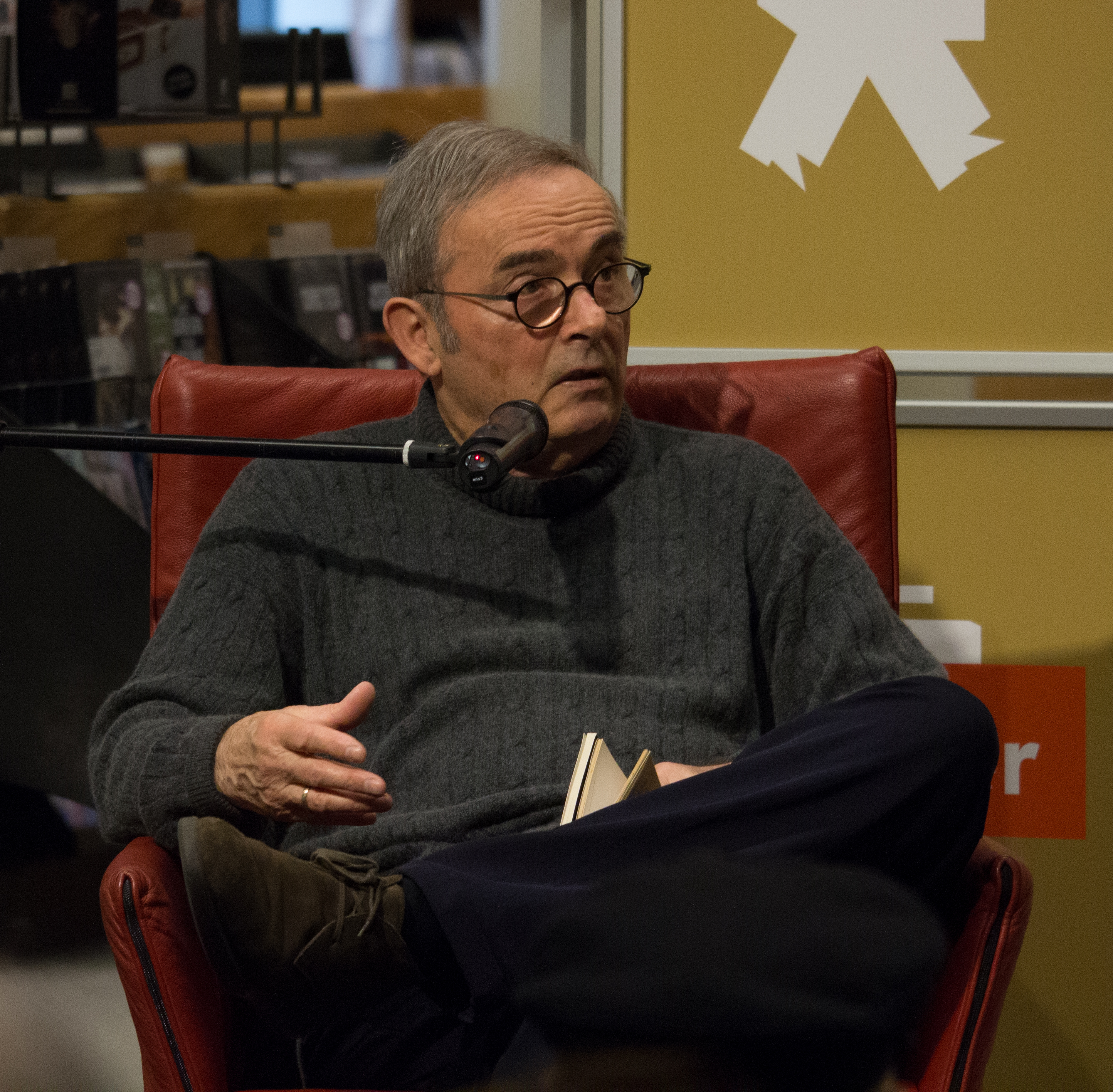 Hans Sleutelaar reading from his own work at Donner book store